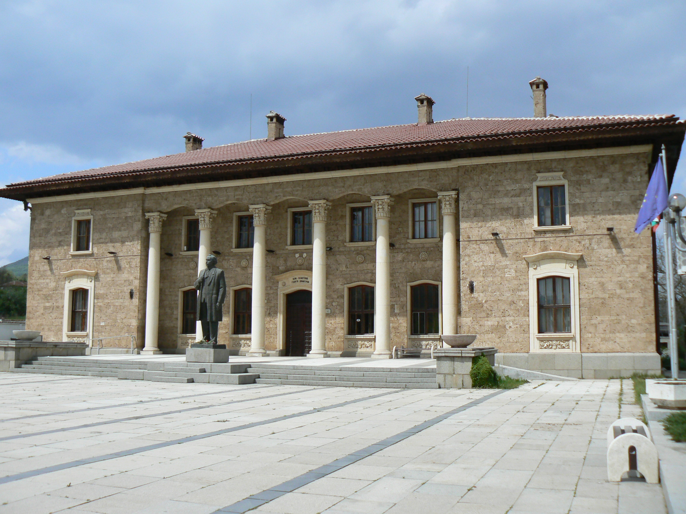 House-monument of Georgi Dimitrov in village Kovachevtsi, Pernik District, Bulgaria